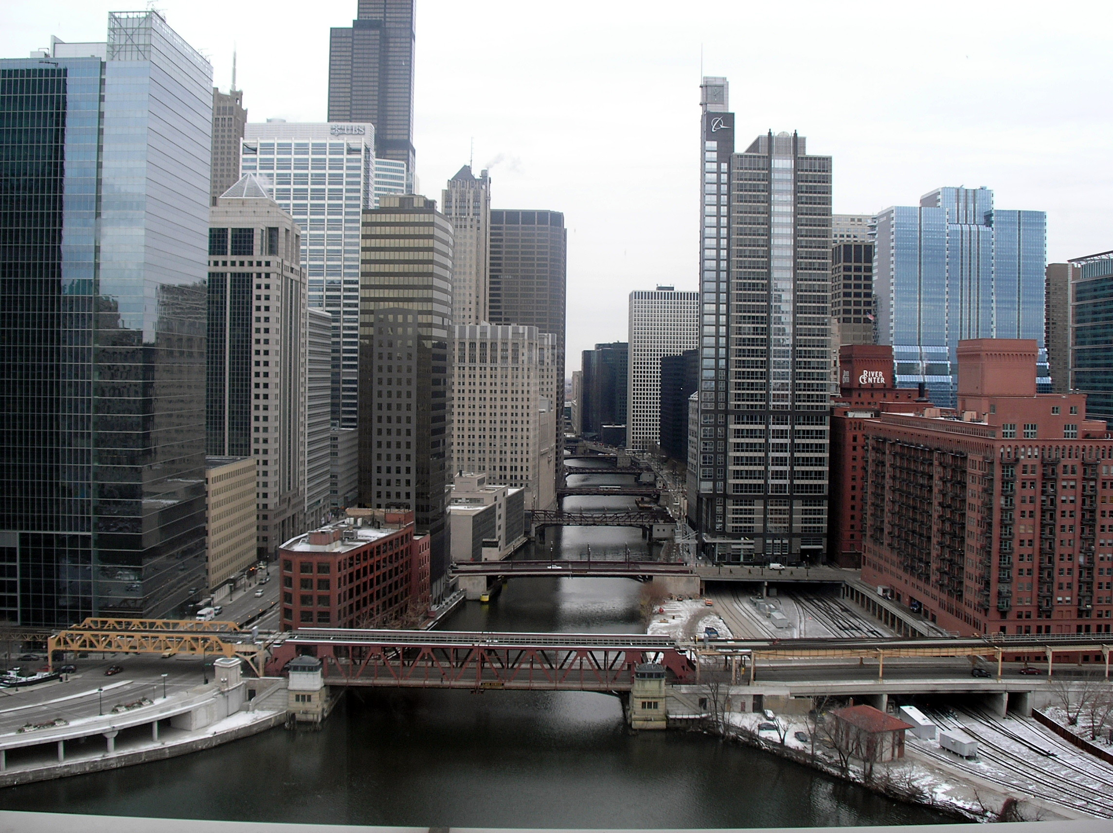 View of the Chicago River from Suntimes building